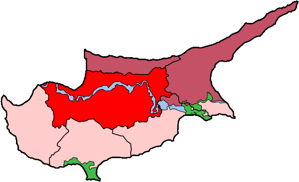 Map of Cyprus showing Nicosia district. The green areas are the UK Sovereign Base Areas, the blue area is the UN buffer zone. Areas north of the buffer zone are controlled by the Turkish Republic of Northern Cyprus, areas south are controlled by the Greek Cypriot government.